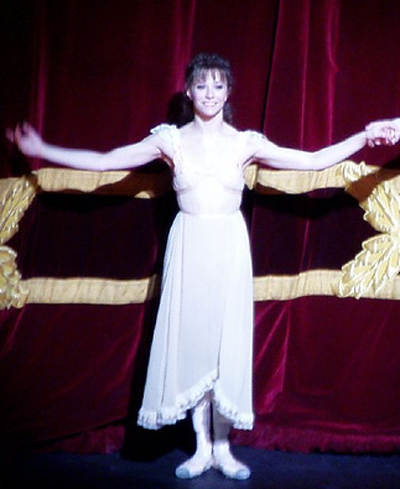 Alina Cojocaru as Baroness Mary Vetsera in the Royal Ballet's "Mayerling". Cropped from scillystuff's original file.